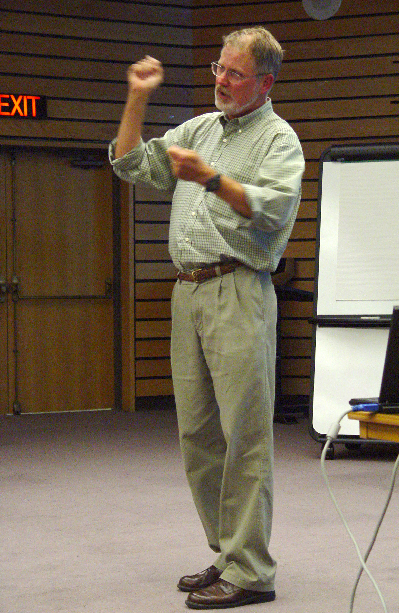 Dr. Daniel M. Russell Senior Research Scientist, Google SFBAY ACM Cupertino, CA